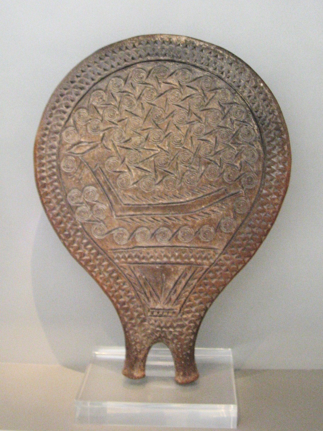 Clay frying-pan vessel with incised decoration of a ship. Found at Chalandriani on Syros island. Early cycladic II period (Keros-Syros culture, 2800-2300 BC)